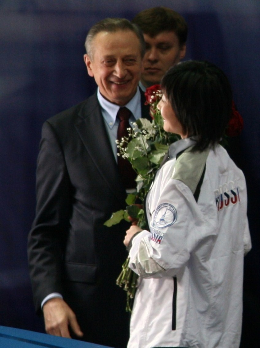 President of the Figure Skating Federation of Russia Alexander Gorshkov says Happy Birthday to Yuko Kawaguchi at the ISU Grand Prix Cup of Russia 2010.